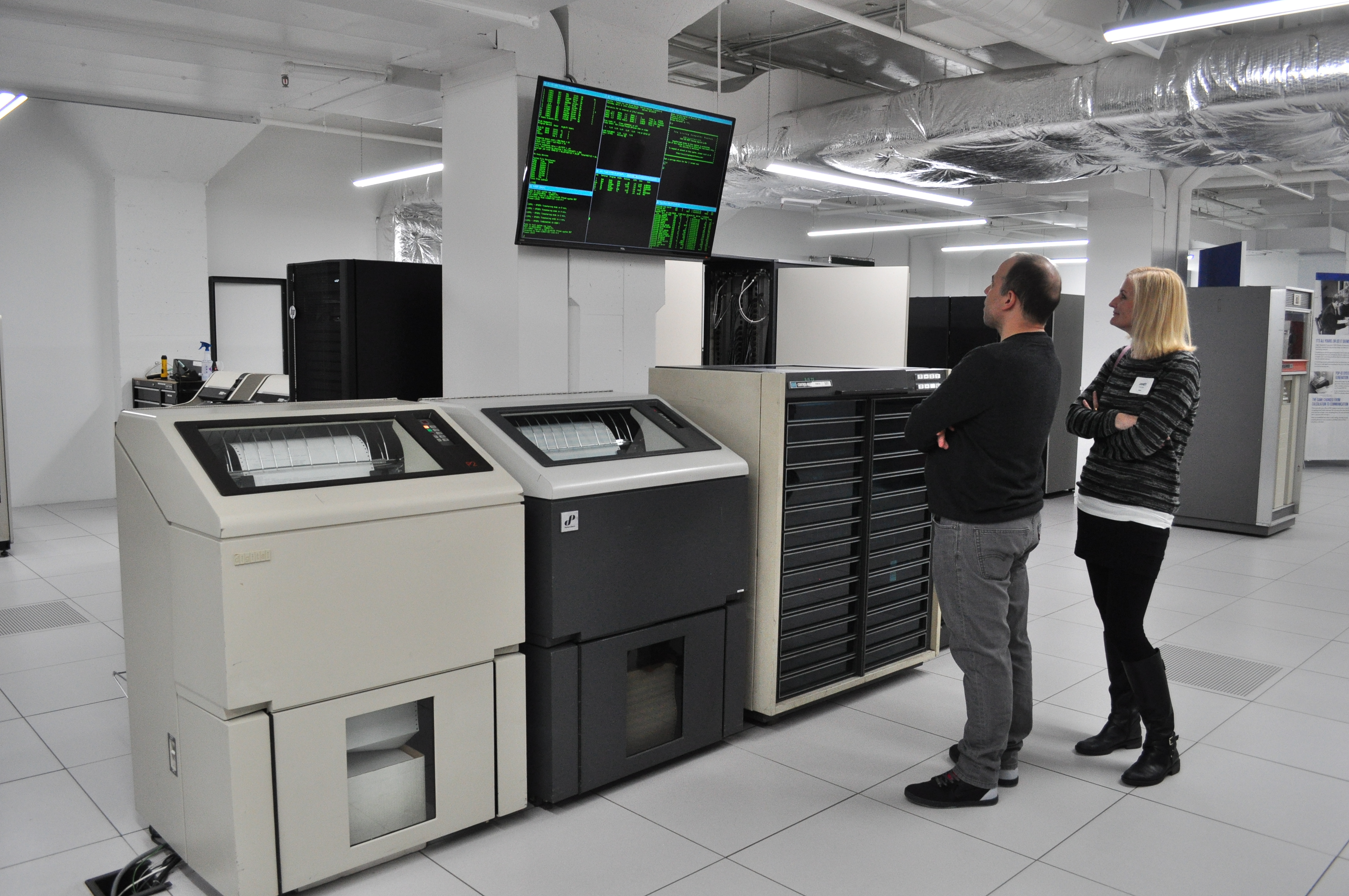 Control Data Corporation (CDC) 501 printer and other peripherals, Living Computer Museum, Seattle, Washington, USA.